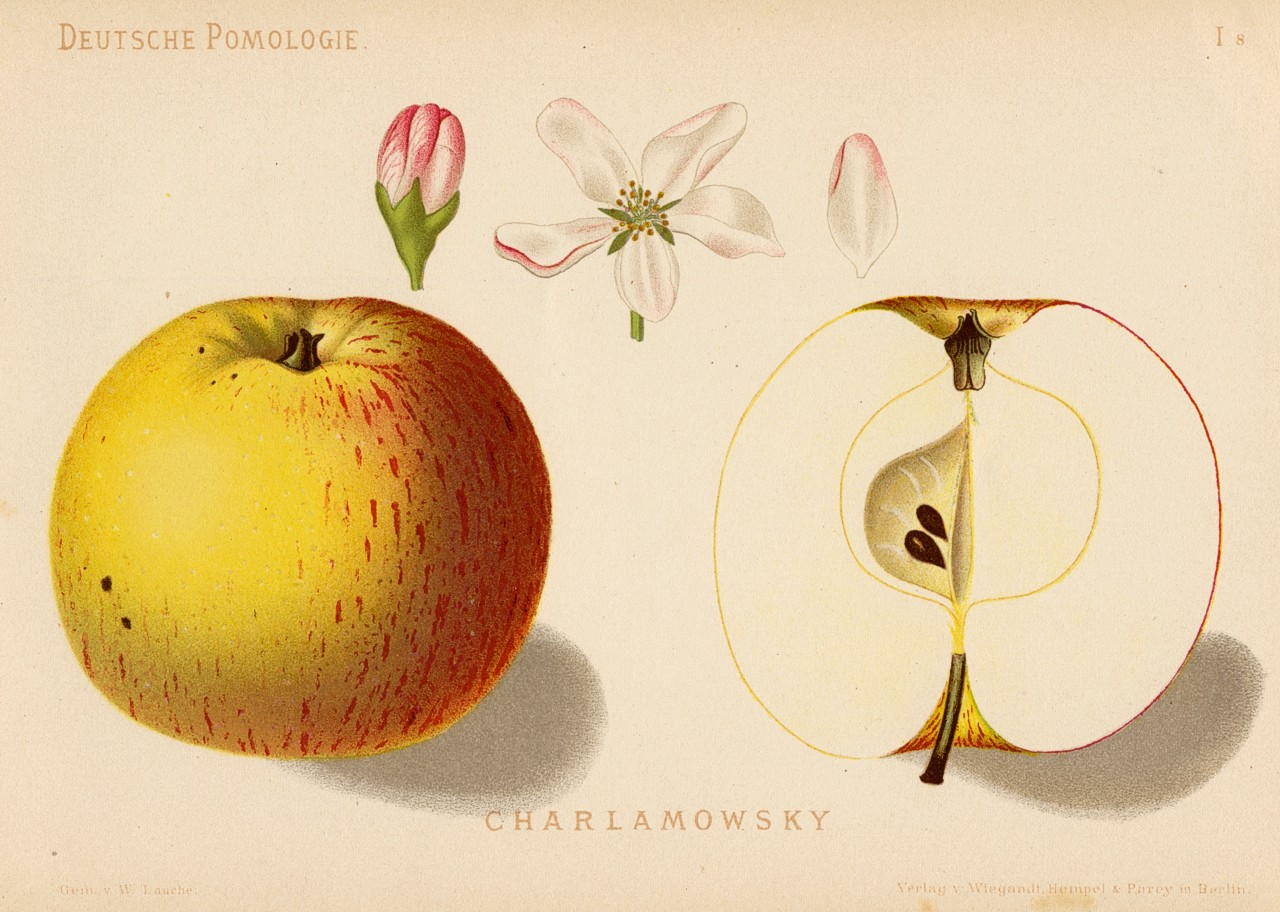 Illustration 8 from Deutsche Pomologie - Aepfel Apple cultivar shown: Charlamowsky